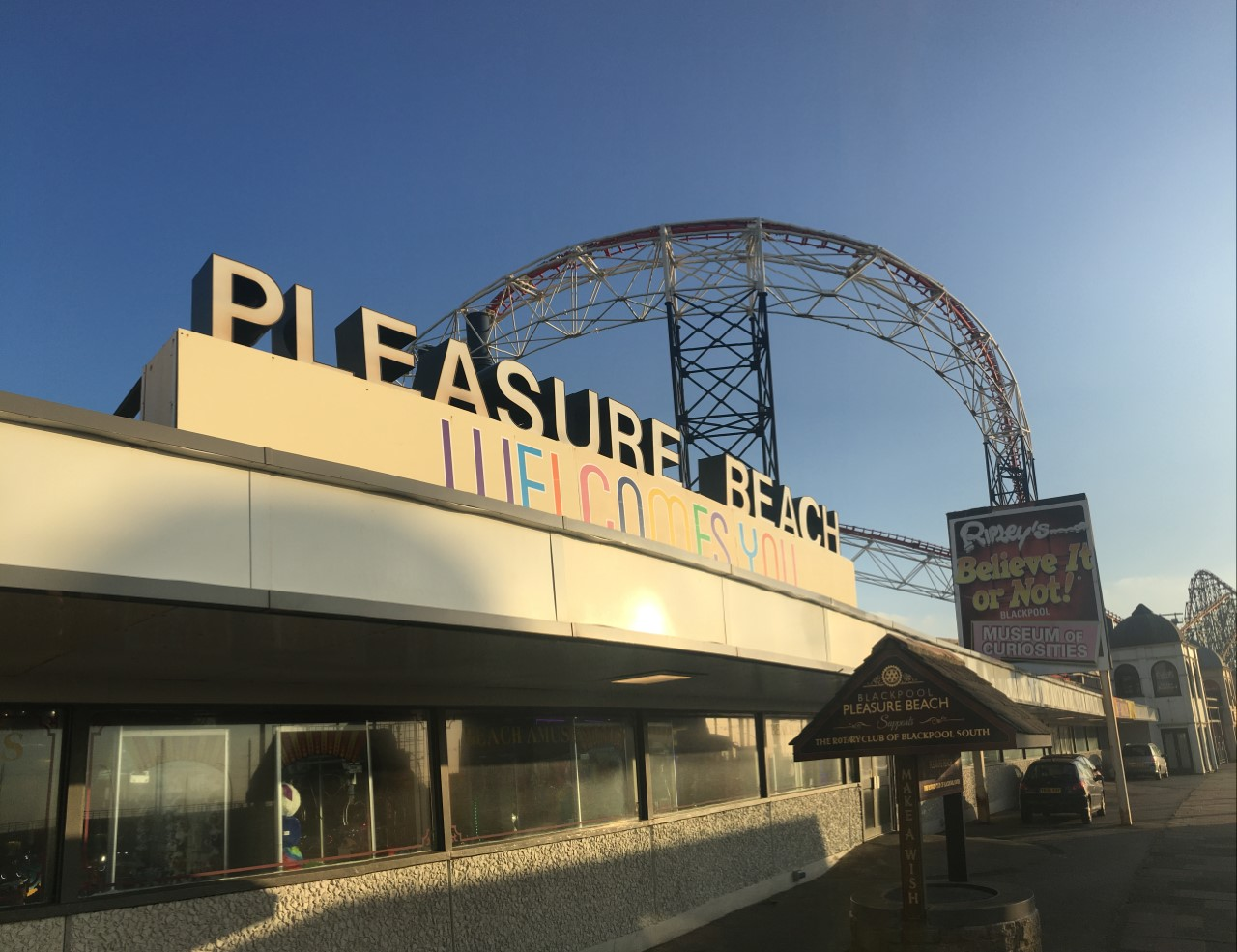 Entrance to Pleasure Beach with Big One overhead